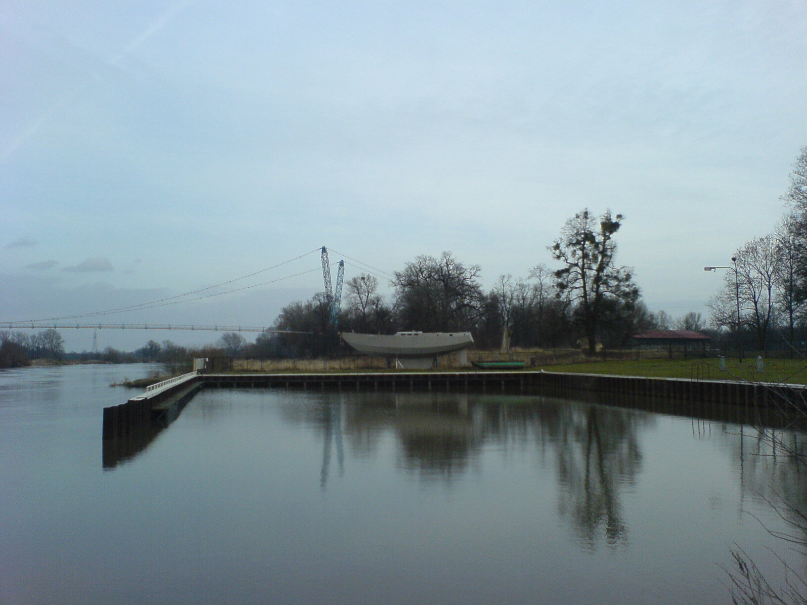 Wrocław, Siedlec, Oder River, Rancho Harbor